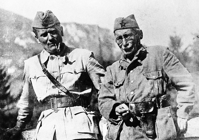 Tito and Moša Pijade in Foča